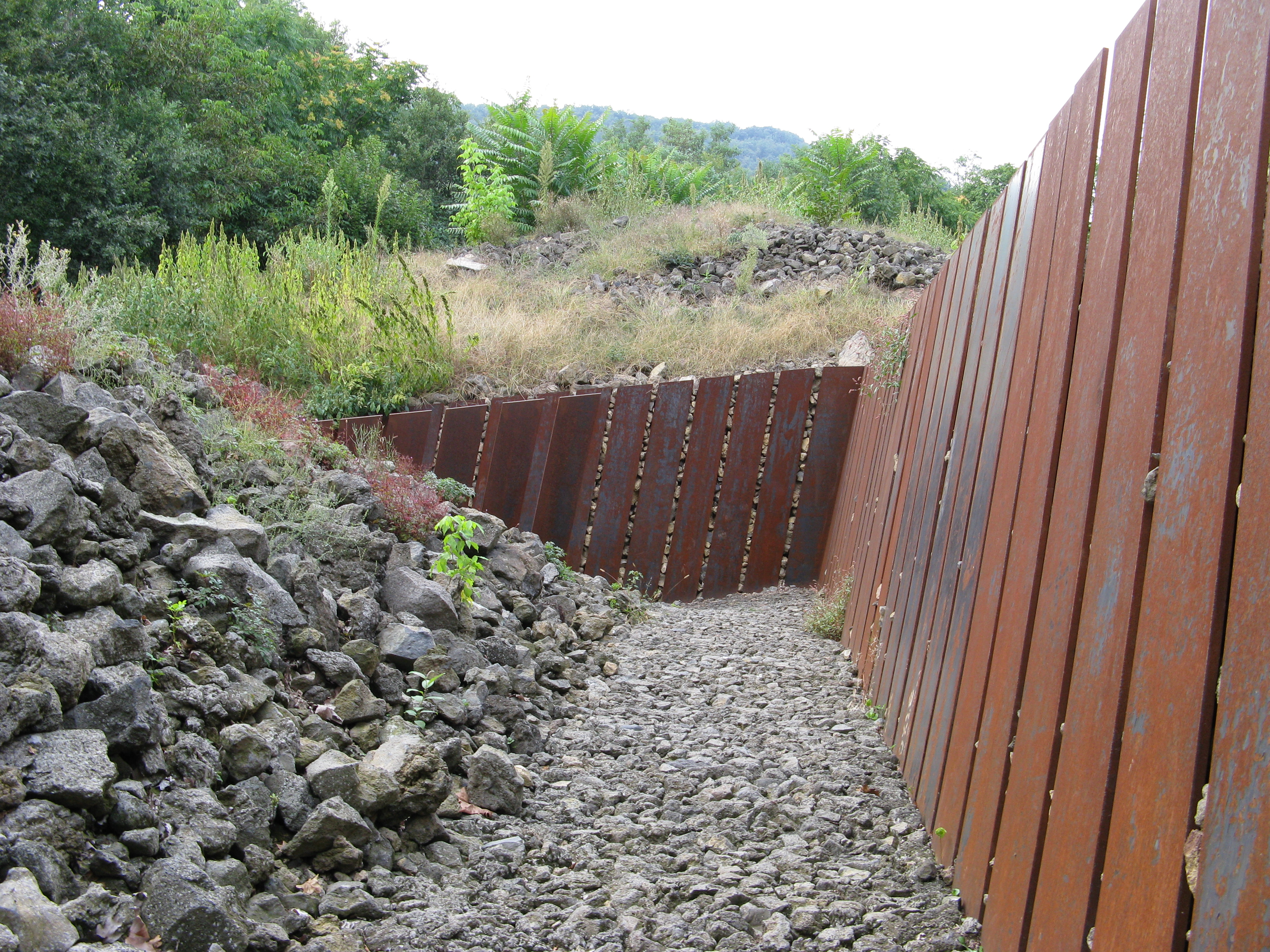 Entrance of Parc de Pedra Tosca (Olot and Les Preses, Catalonia, Spain)